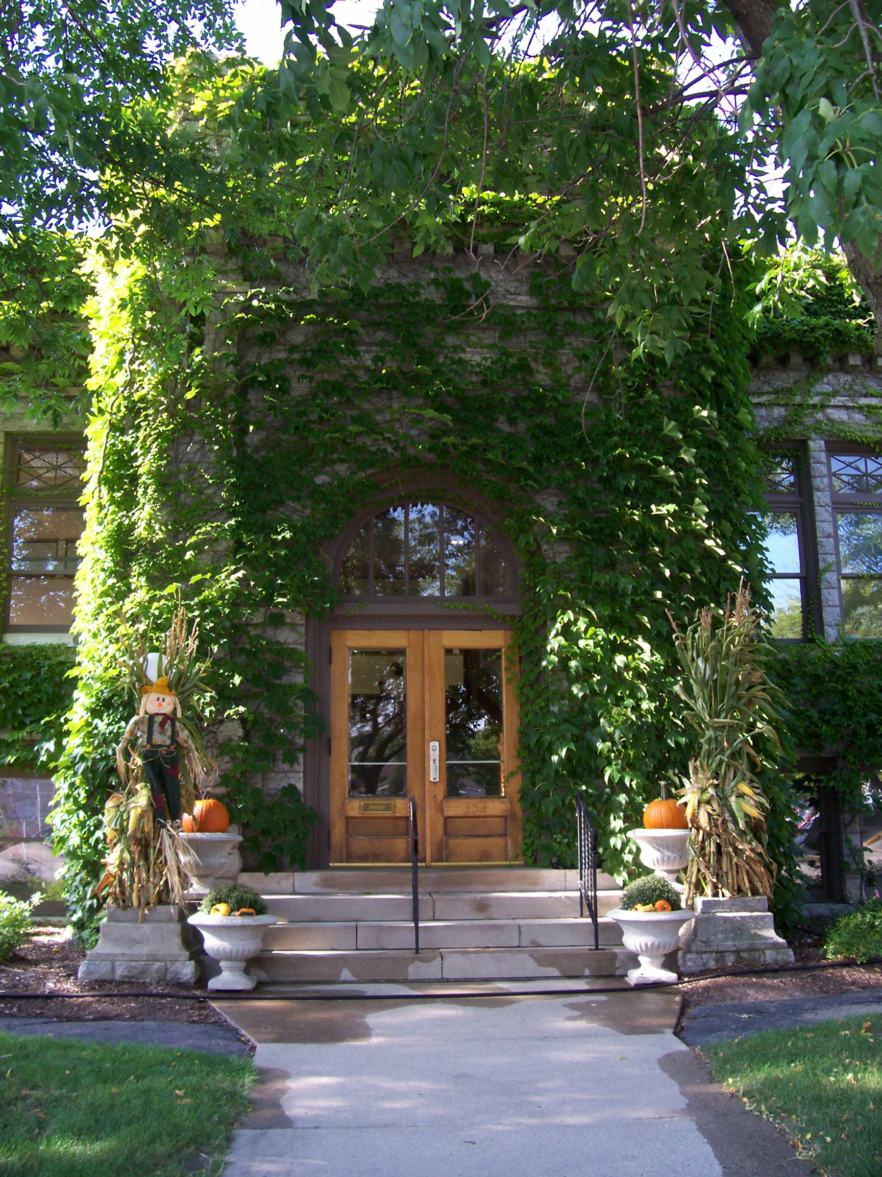 The former Carnegie Free Library in Sturgeon Bay, Wisconsin, now an office building. It is listed on the National Register of Historic Places.